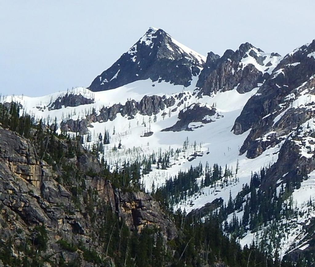 Copper Point seen from the North Cascades Highway on May 31, 2016.